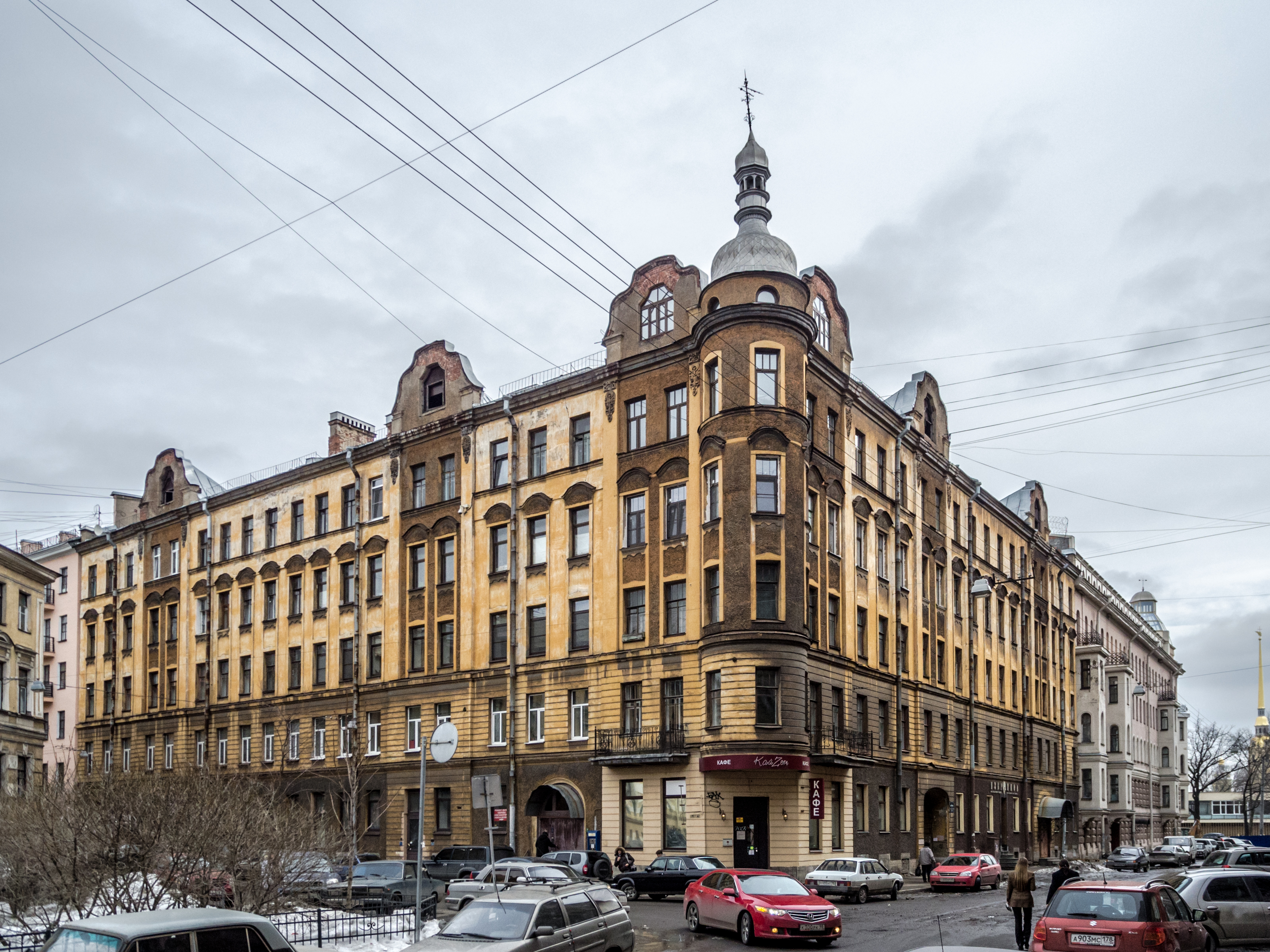 Saint Petersburg, 3, Blokhina street